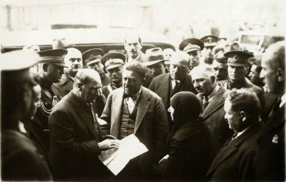 Kemal Atatürk (or alternatively written as Kamâl Atatürk, Mustafa Kemal Pasha until 1934, commonly referred to as Mustafa Kemal Atatürk; 1881 – 10 November 1938) was a Turkish field marshal, revolutionary statesman, author, and the founding father of the Republic of Turkey, serving as its first President from 1923 until his death in 1938. He undertook sweeping progressive reforms, which modernized Turkey into a secular, industrial nation. Ideologically a secularist and nationalist, his policies and theories became known as Kemalism. Due to his military and political accomplishments, Atatürk is regarded as one of the most important political leaders of the 20th century.